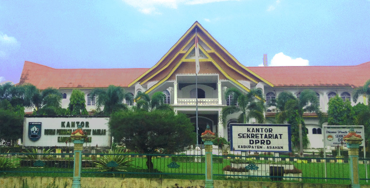 Office of DPRD Kabupaten Asahan, Sumatra Utara